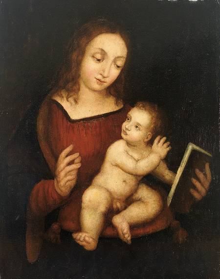 Reading Virgin Mary with the Child